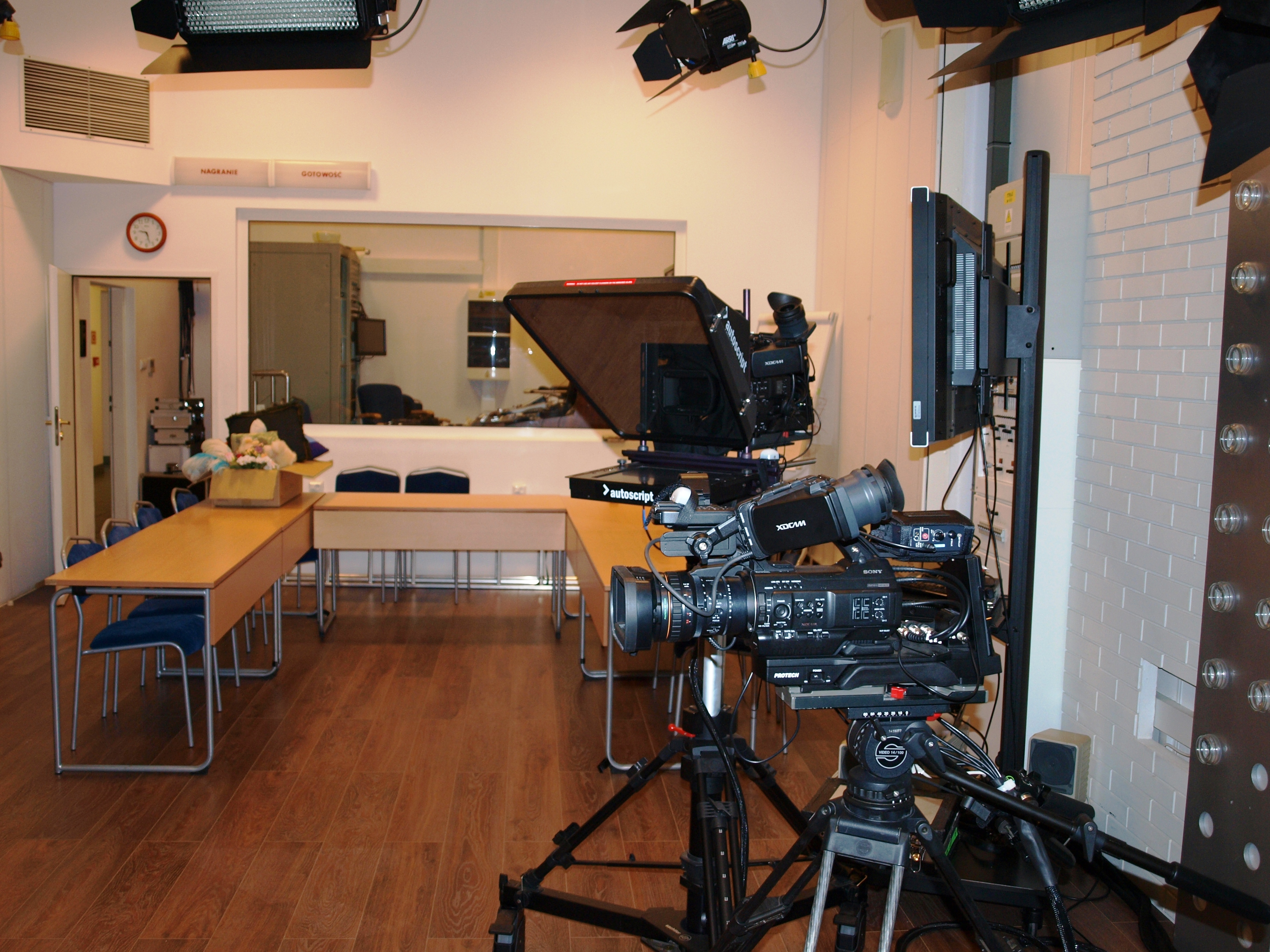 Film Studio Television Academy